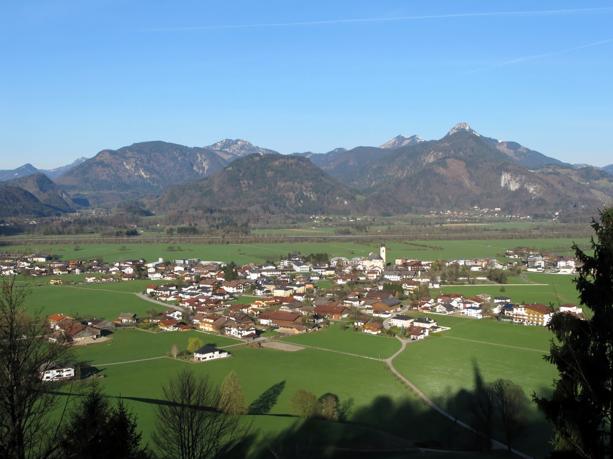 Village Ebbs, View from East